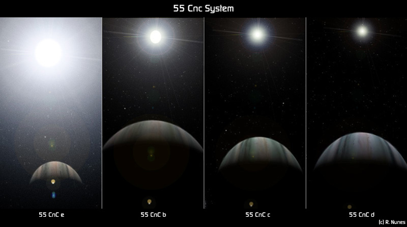 55 cnc system planets. (more specifically